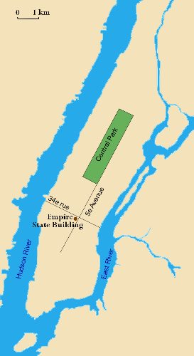 Empire State Building Location I made this map Febr 2007